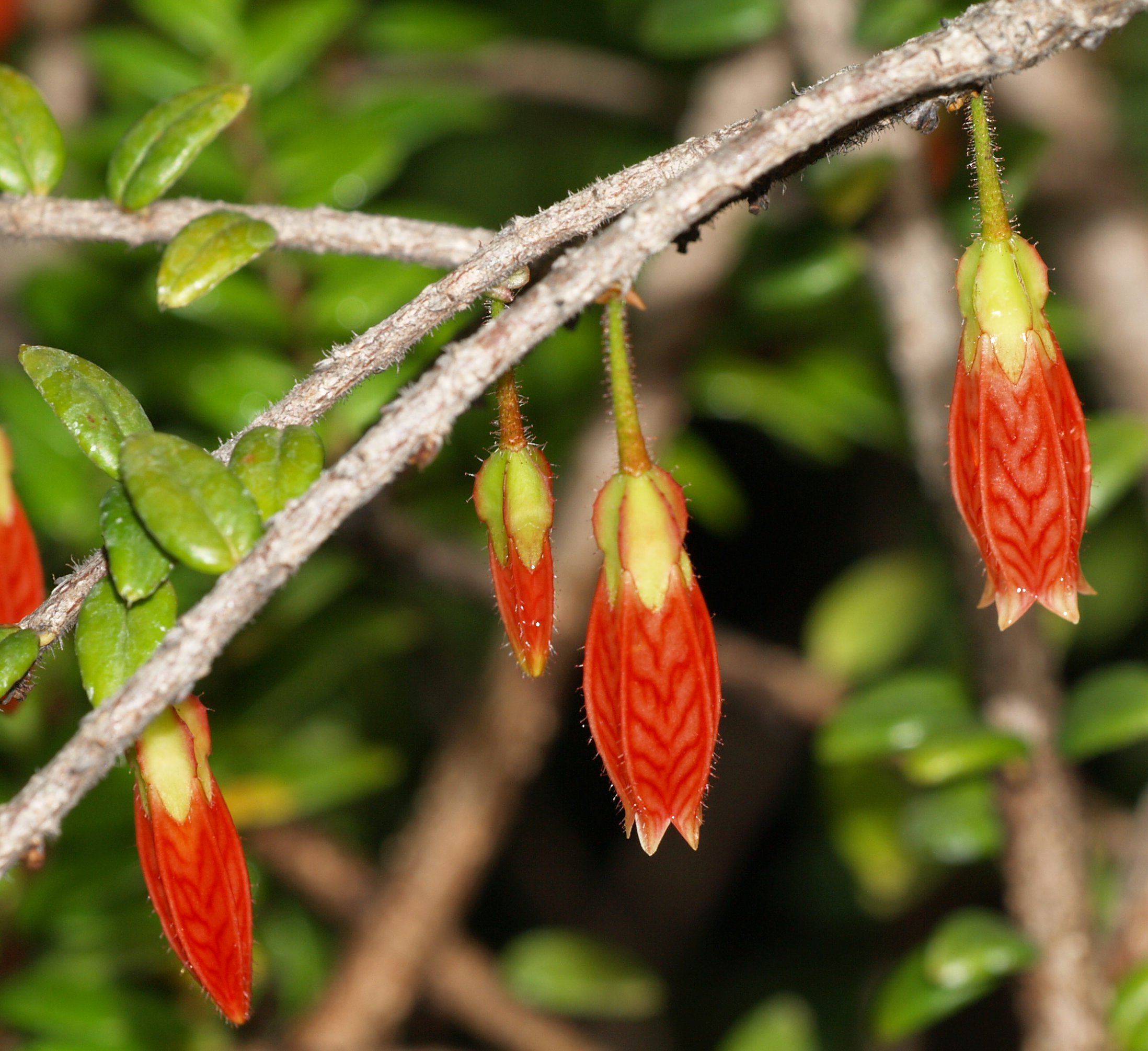 Agapetes serpens from the Botanical Garden (Flora) of Cologne, Germany.